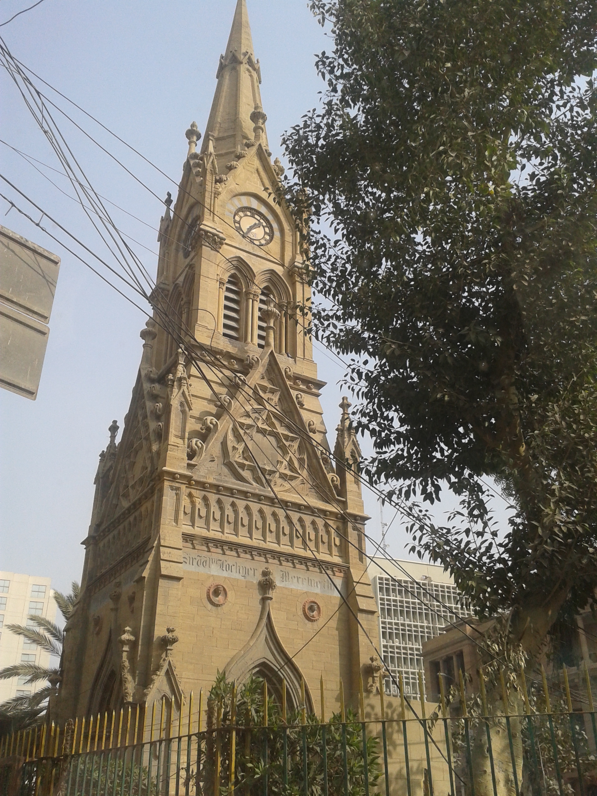 Merewether Clock Tower This is a photo of a monument in Pakistan identified as the SD-P-20